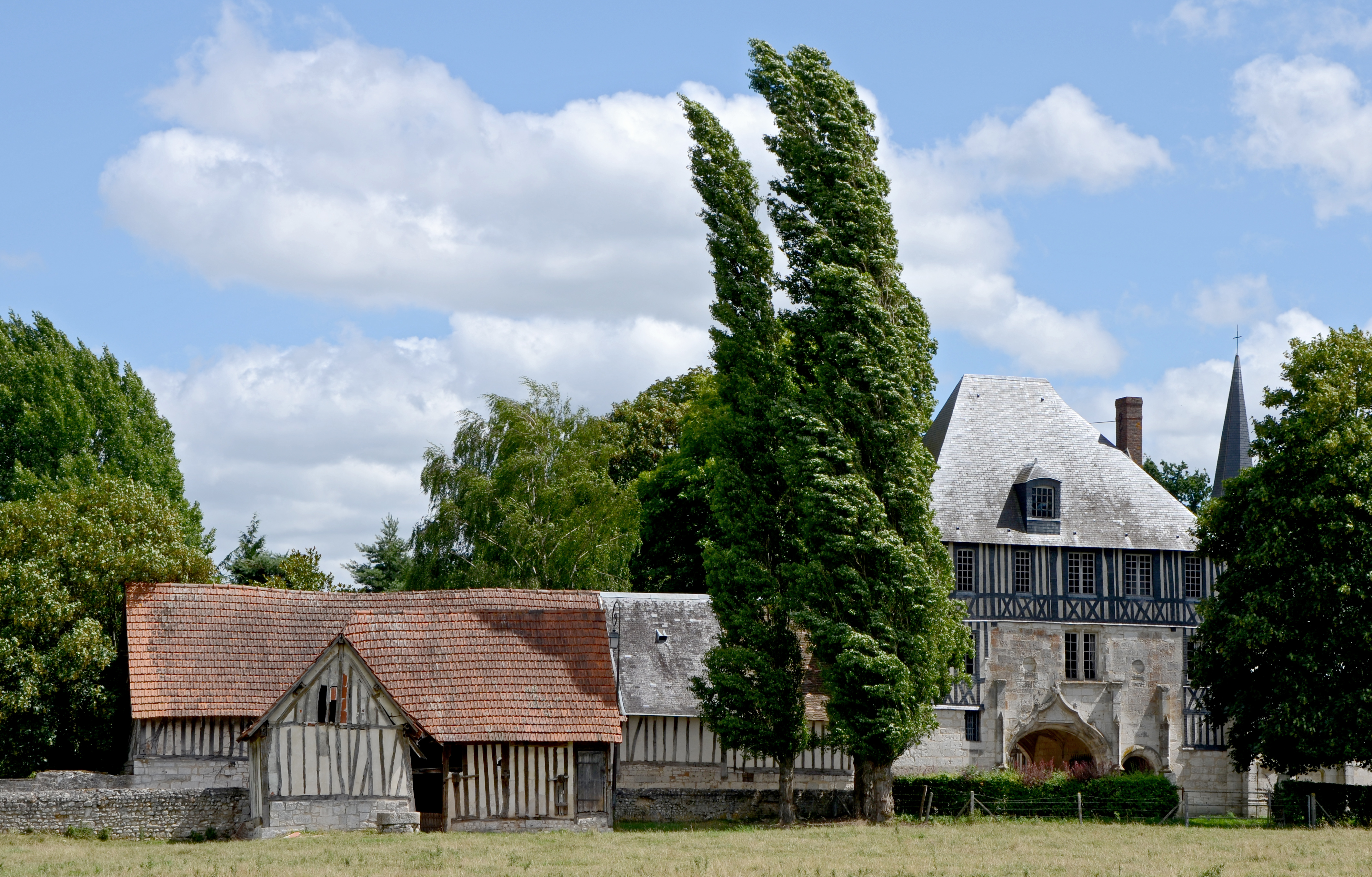 Manoir of Marbeuf in Sahurs, Seine Maritime, Normandie, France